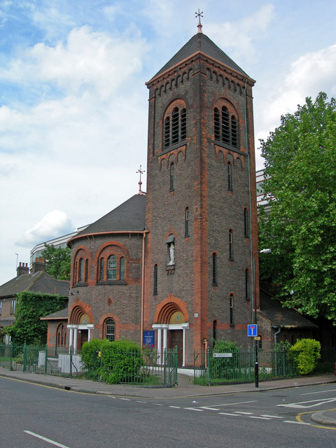 Our Lady of Compassion Catholic Church, Green Street This church is on the corner of Green Street and Castle Street. The West Ham football ground is just visible in the background.